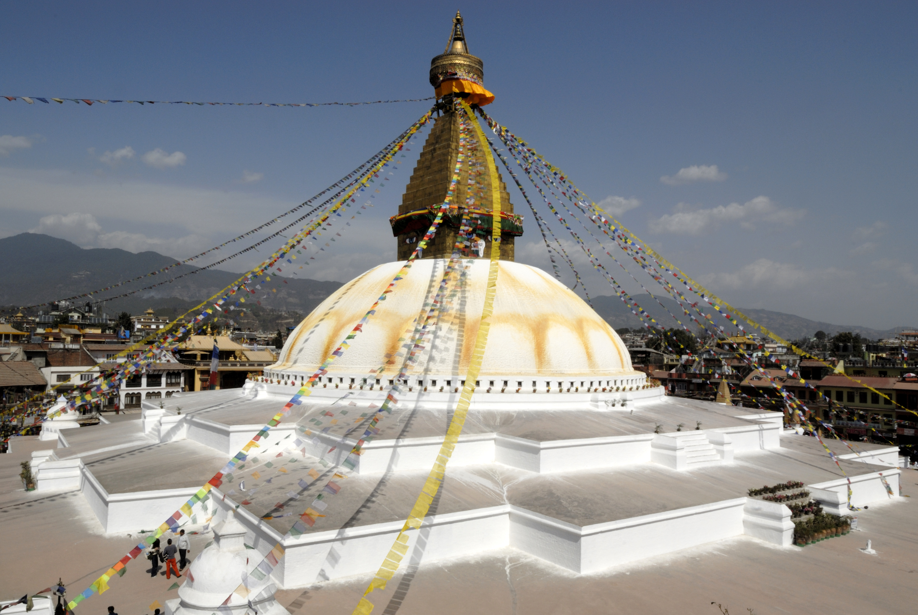 Bodnath stupa